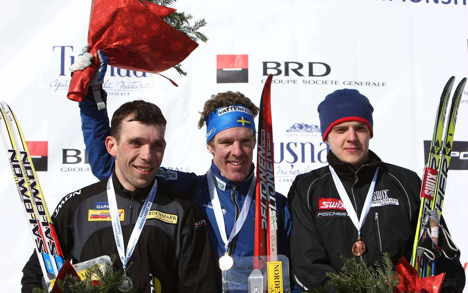 European Ski-Orienteering Championship 2010, (8th - 15th February, 2010; Miercurea Ciuc, Romania). From left to right: Eduard Khrennikov, Peter Arnesson, Andrey Grigoriev